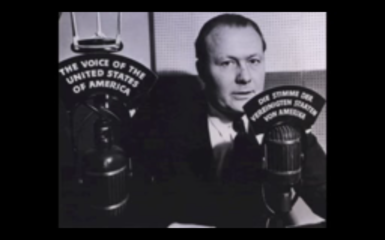 WIlliam Harlan Hale, first VOA broadcast